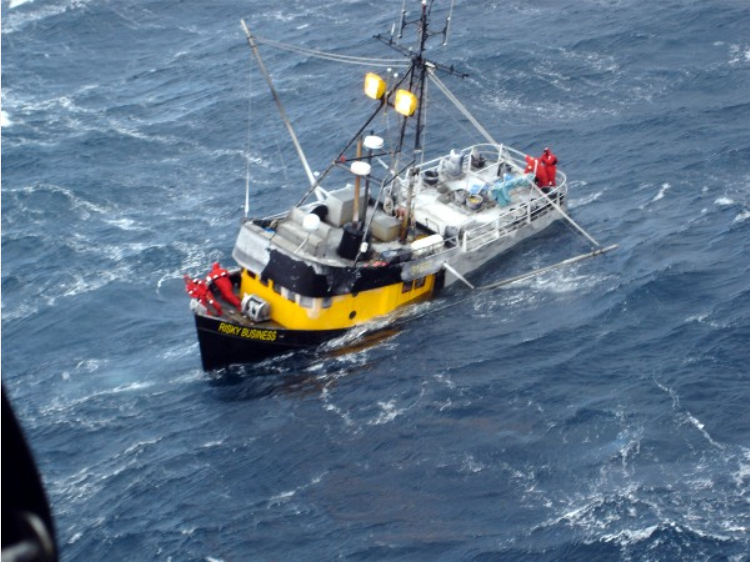 The American fishing vessel Risky Business sinking in the Gulf of Alaska.